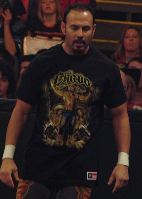 Chavo Guerrero at the Royal Rumble